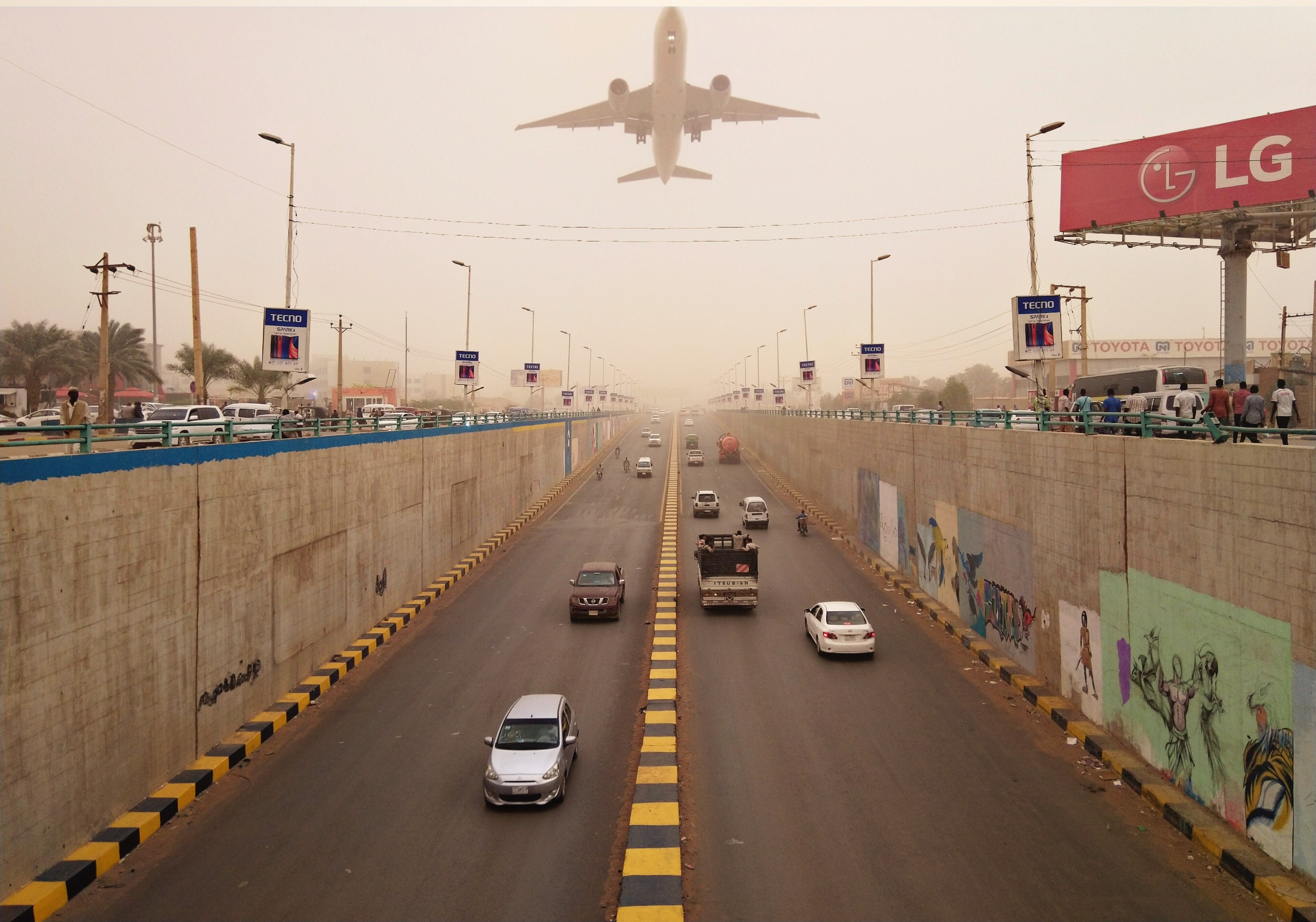 This is an image with the theme "Africa on the Move or Transport" from: Sudan